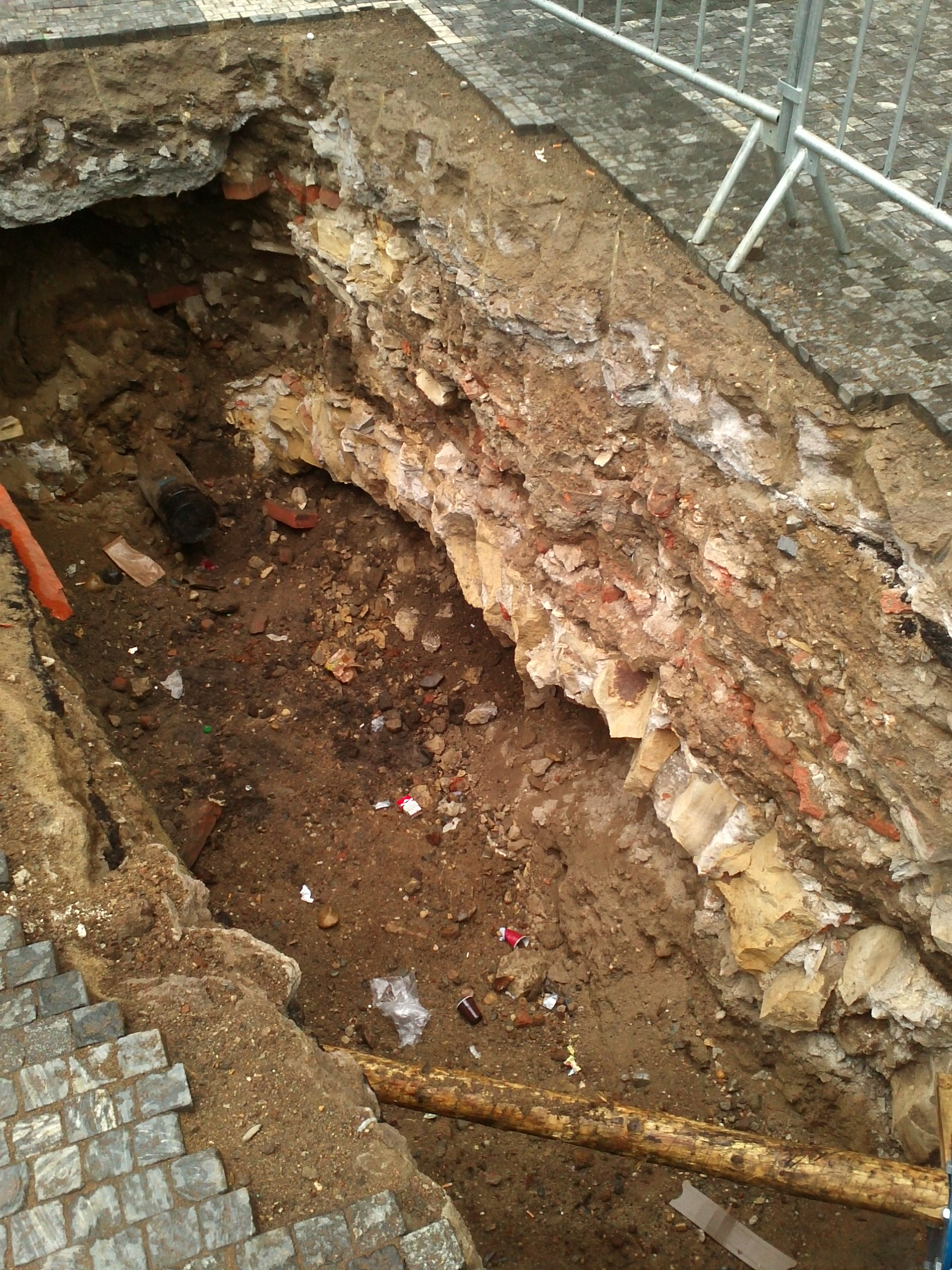 Hole with opoka arch at Franz Kafka Square, Prague, Czech Republic.